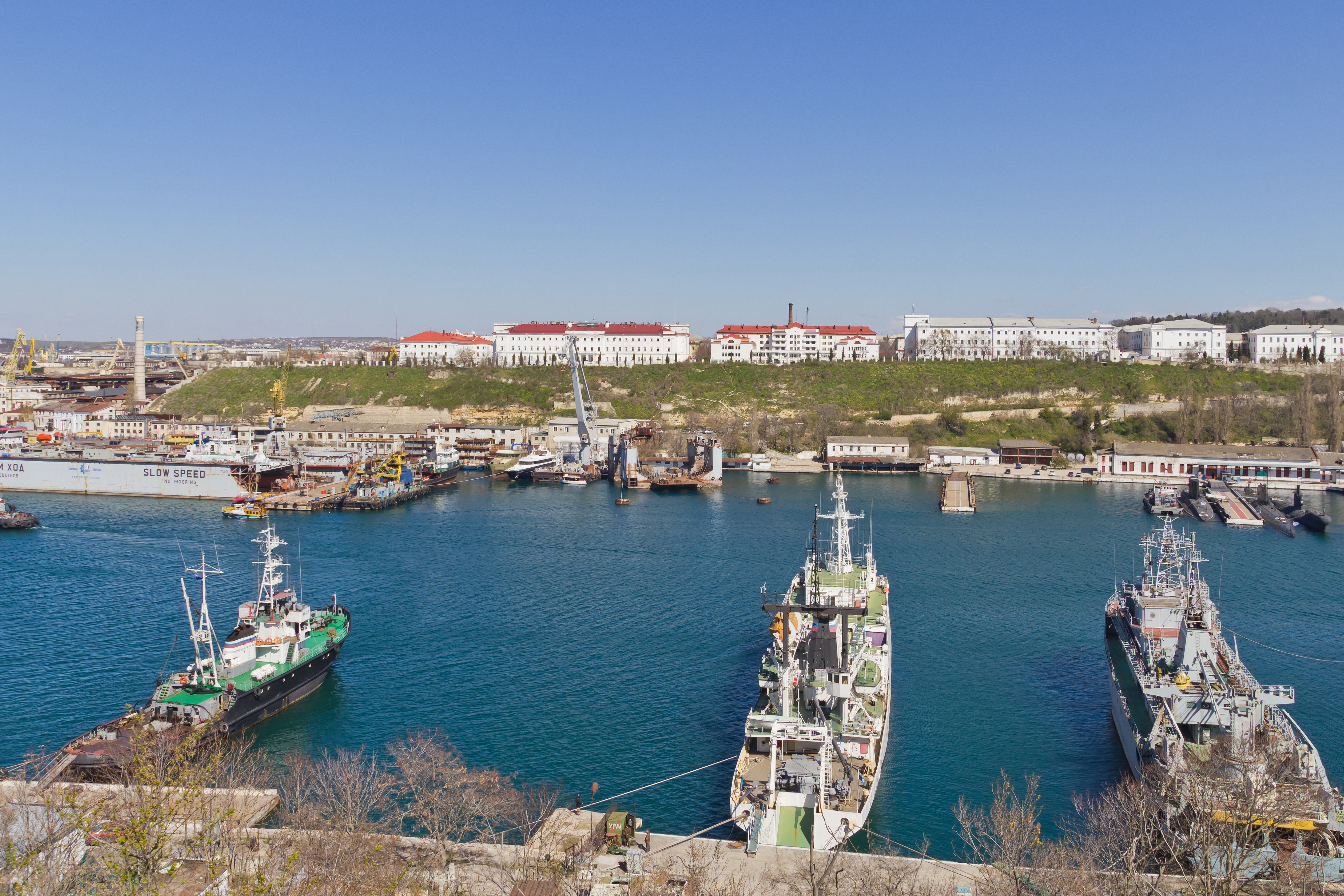 View towards the Southern Bay in the Federal City of Sevastopol. Crimean peninsula.